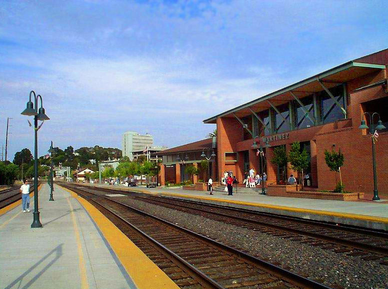 AMTRAK Station, Martinez, CA Photograph by uploader, User:Centpacrr